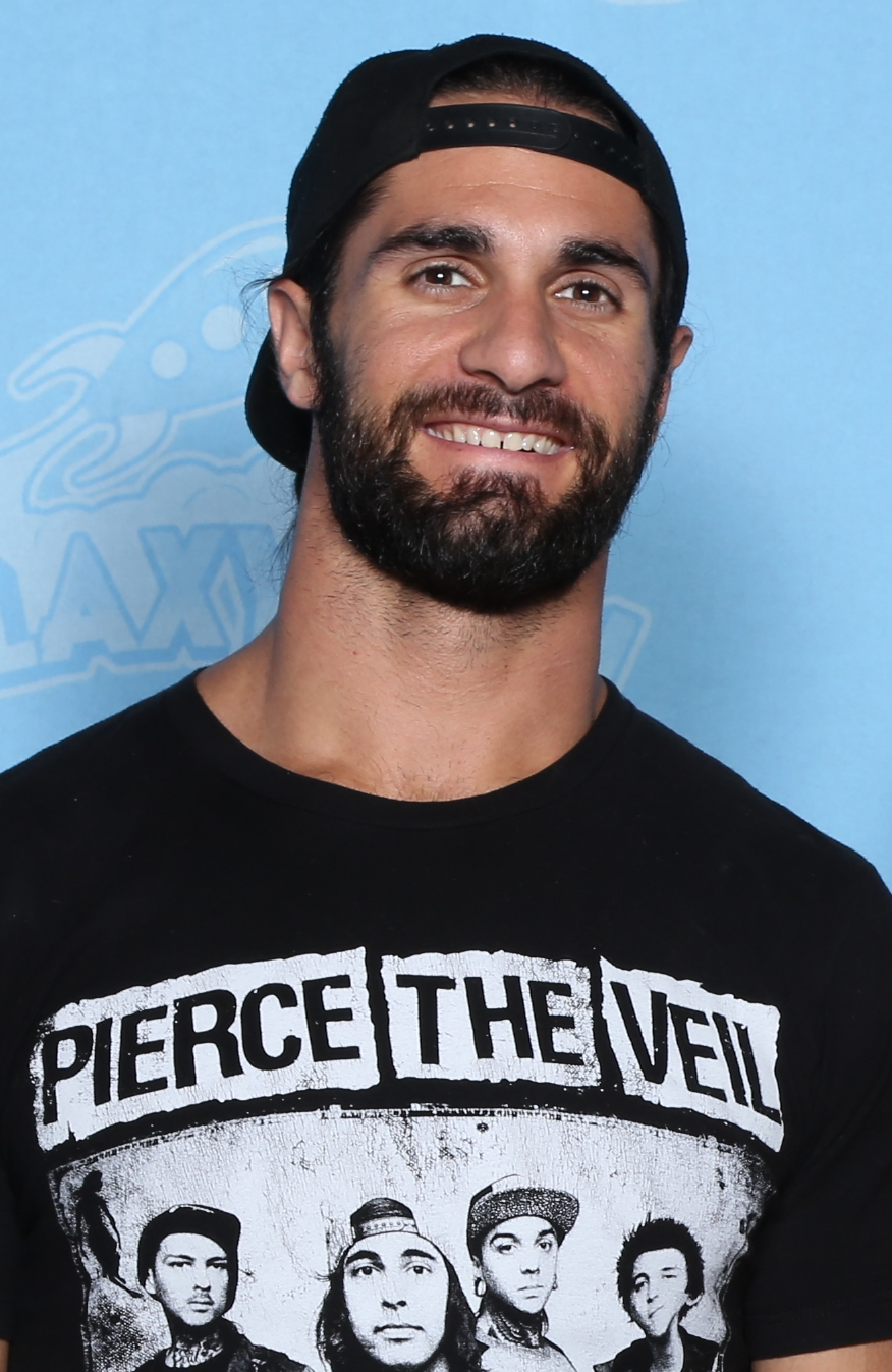 Professional wrestler, Seth Rollins on July 25, 2019 at GalaxyCon Raleigh